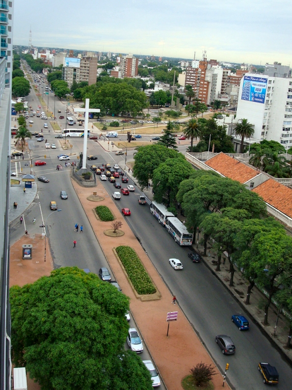 General Artigas Boulevard, seen from Tres Cruces northwards.